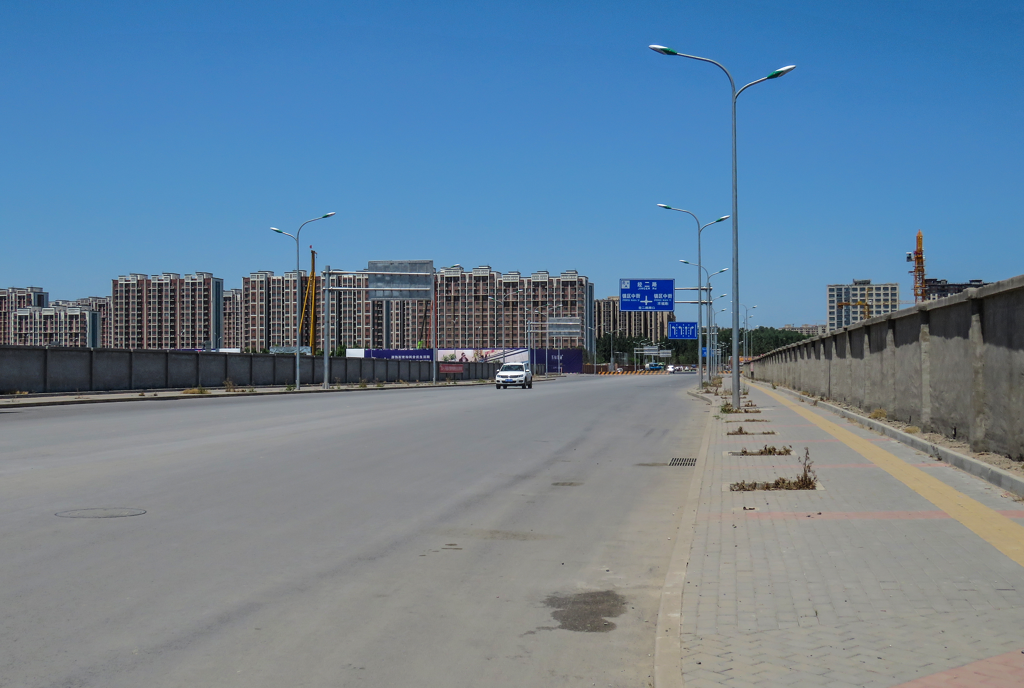 The future start of metro... but not so lively now.